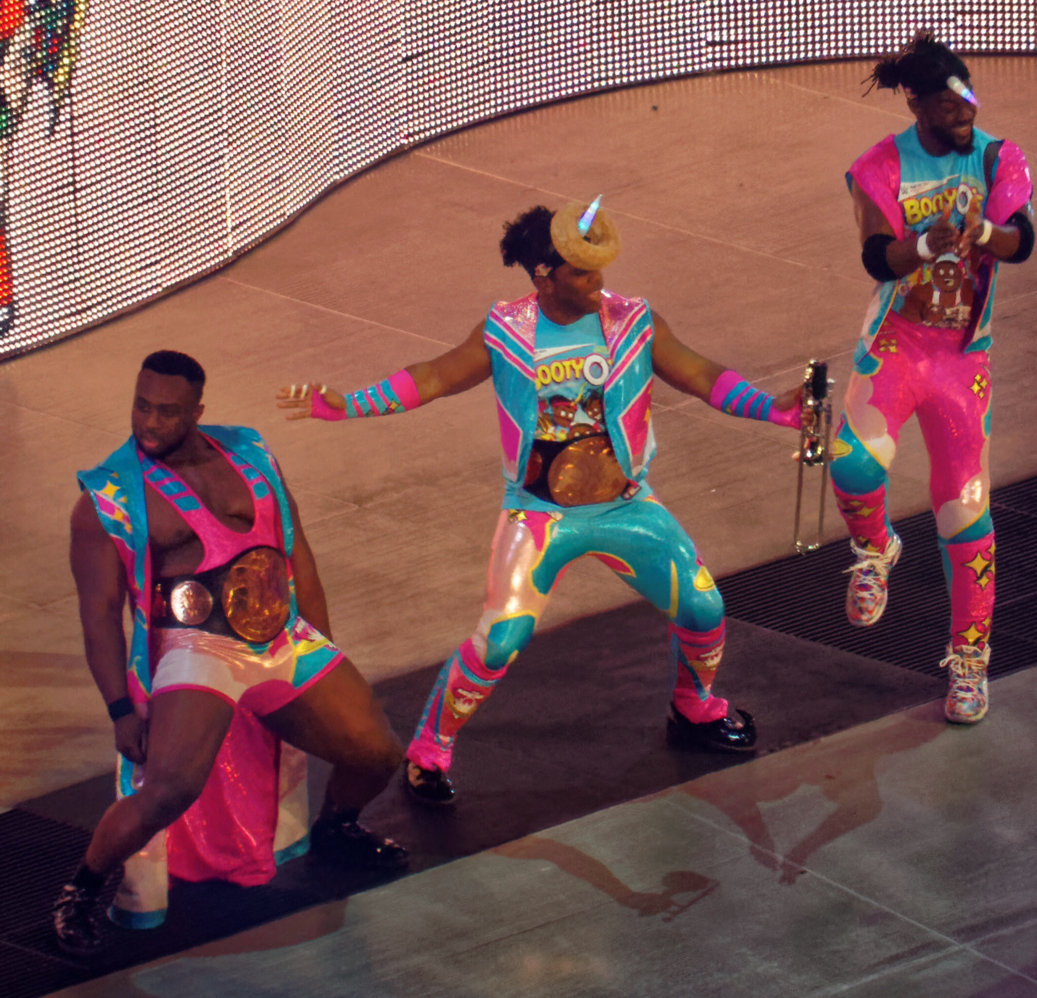 The Raw after WrestleMania 32Big E (c) & Kofi Kingston (c) def. (pin) King Barrett & Sheamus (in 08:45) For: WWE Tag Team Championship